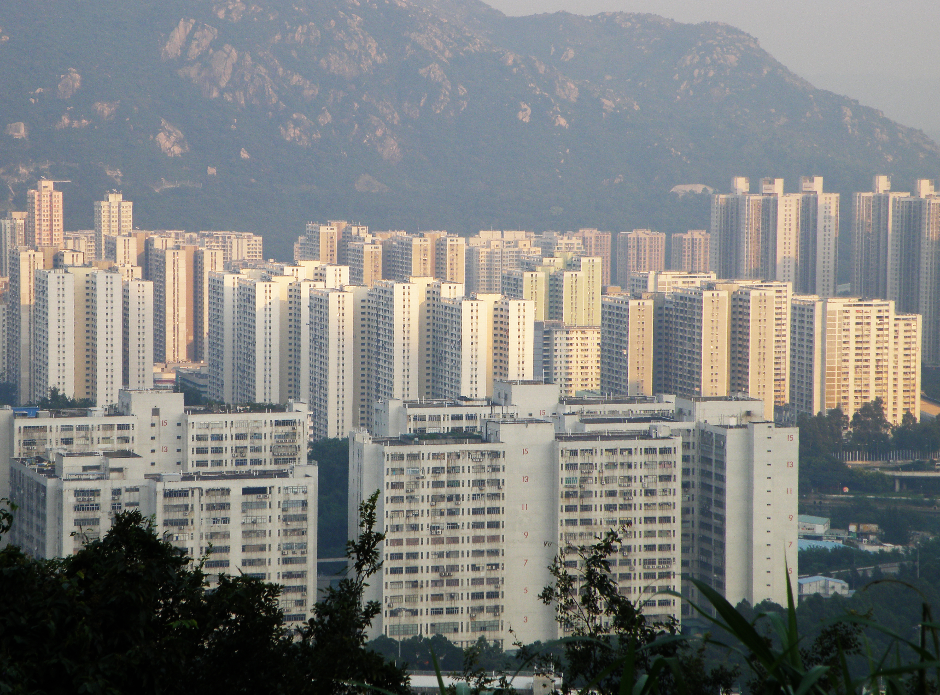 Yau Oi Estate in Tuen Mun, Hong Kong.